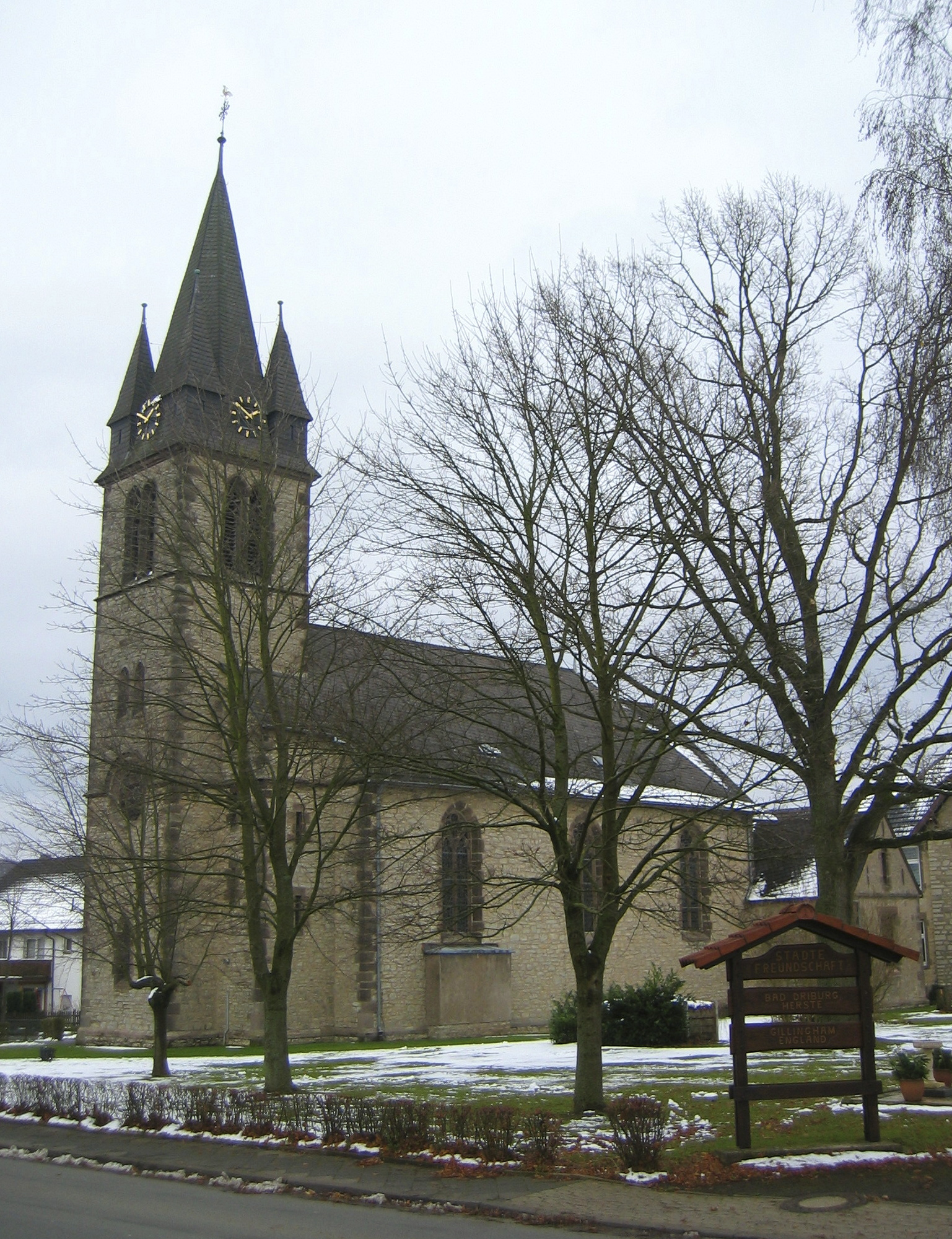 St. Urbanus Church in Herste, Bad Driburg, Germany. The view is from Schmechtener Straße (in front of the old school) of the southwestern aspect of the church. In the foreground right is a sign showing the sister cities of Herste.